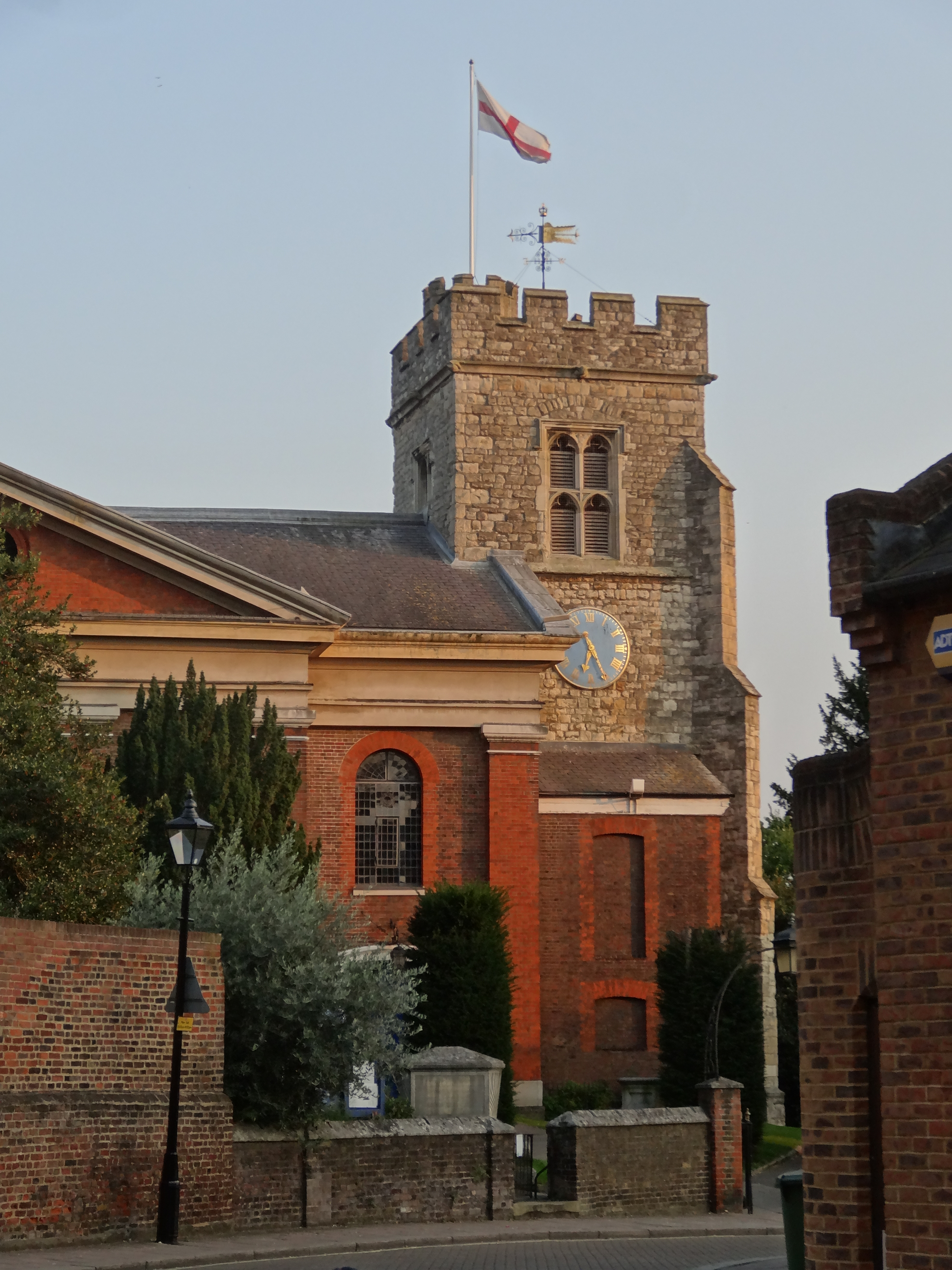 St. Mary's Church (Twickenham)